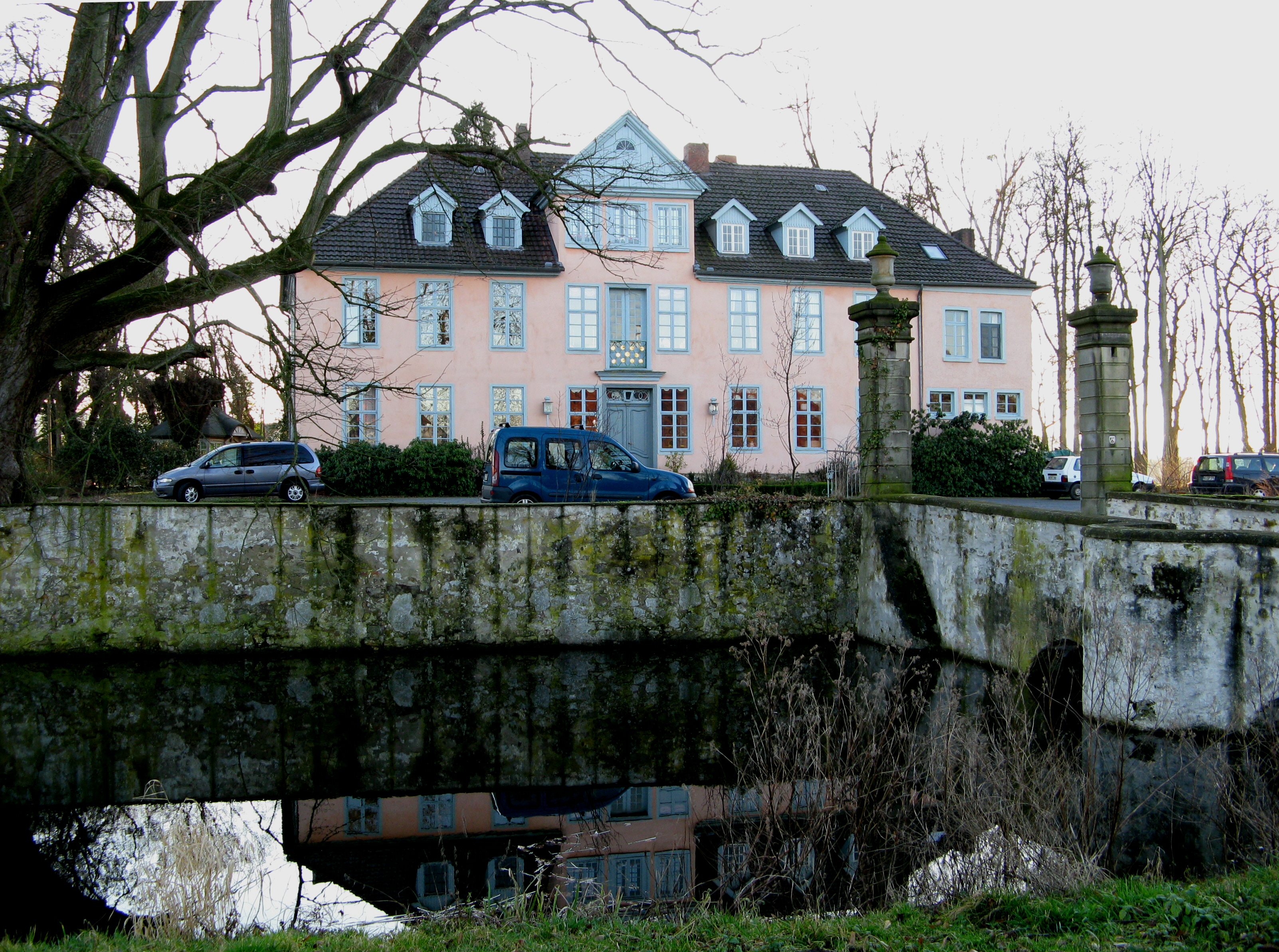 This is a photograph of an architectural monument.It is on the list of cultural monuments of Preußisch Oldendorf